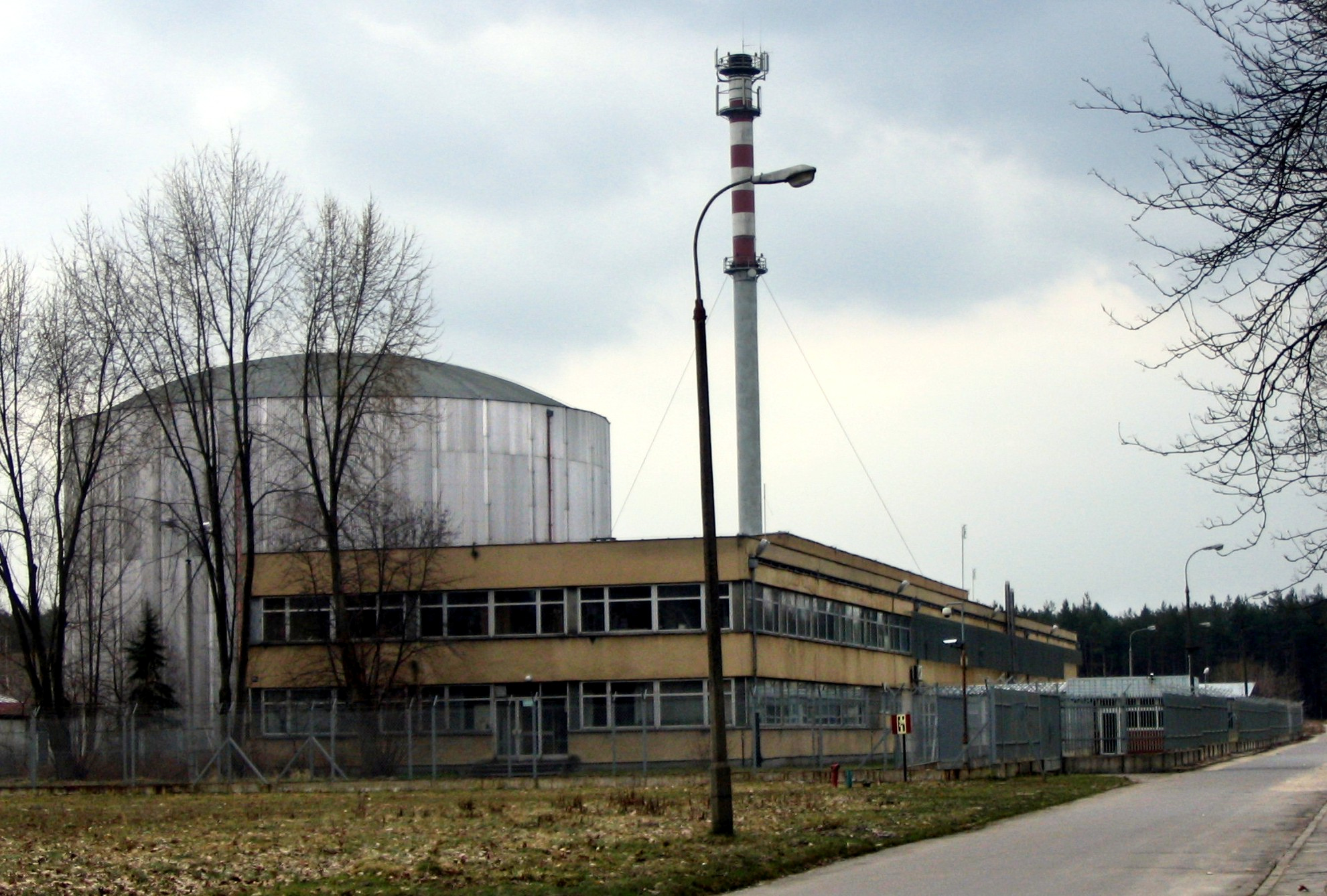 Nuclear reactor "Maria" in Otwock-Świerk near Warsaw, Poland